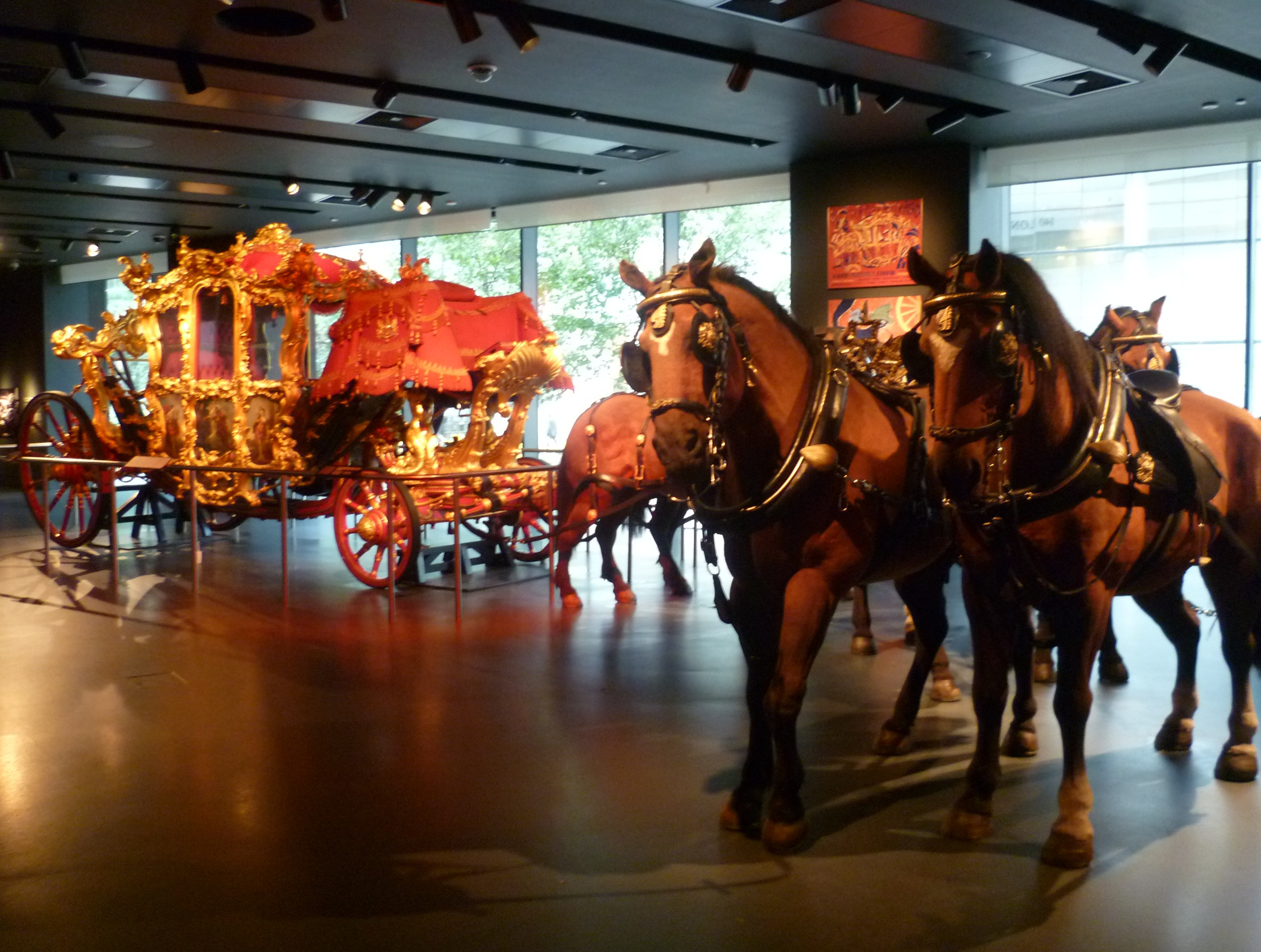 Lord Mayor's Coach, Museum of London